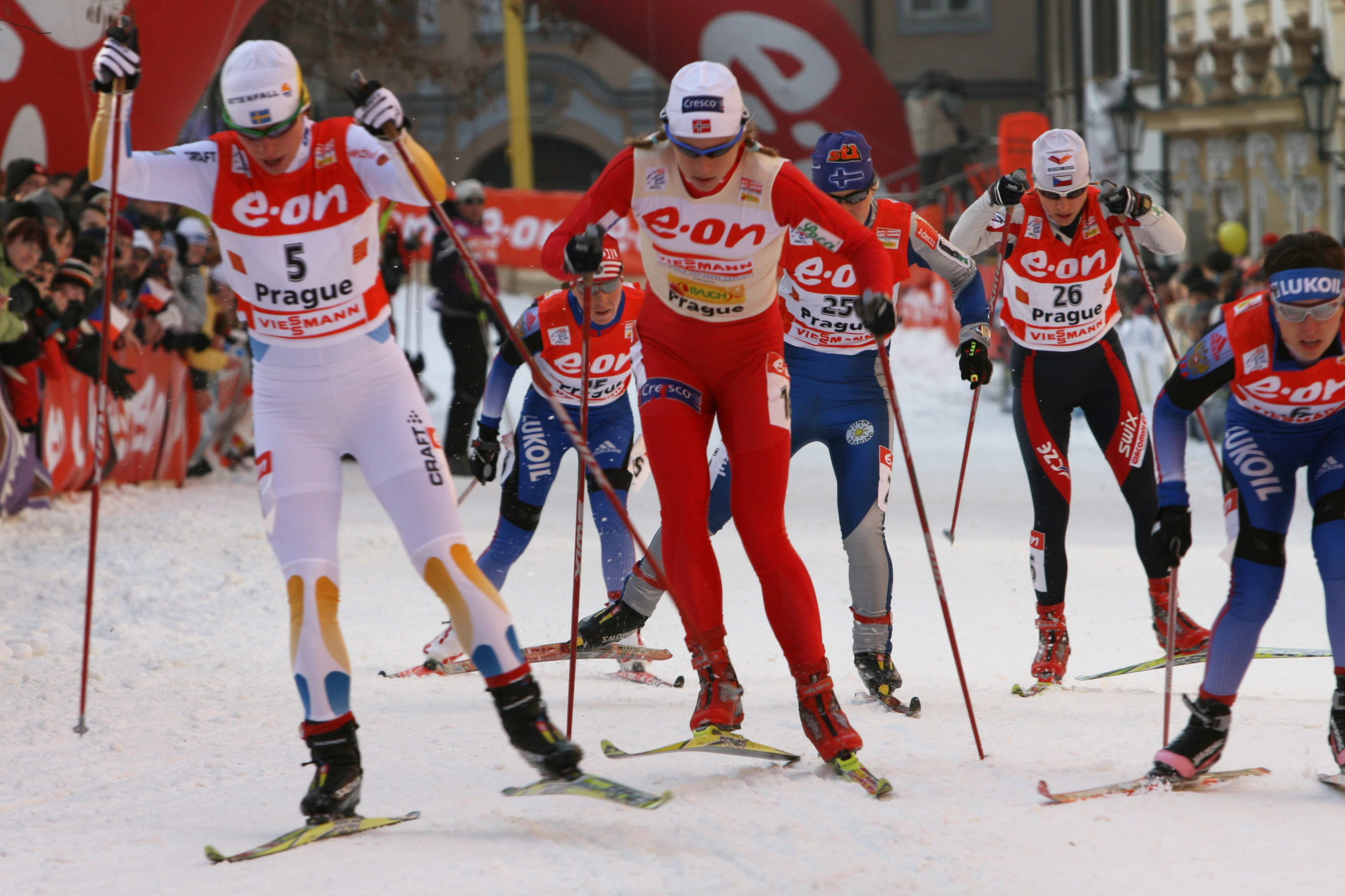 Astrid Jacobsen (numberless, slightly behind Charlotte Kalla (5)) at quaterfinals of Tour de ski in Prague